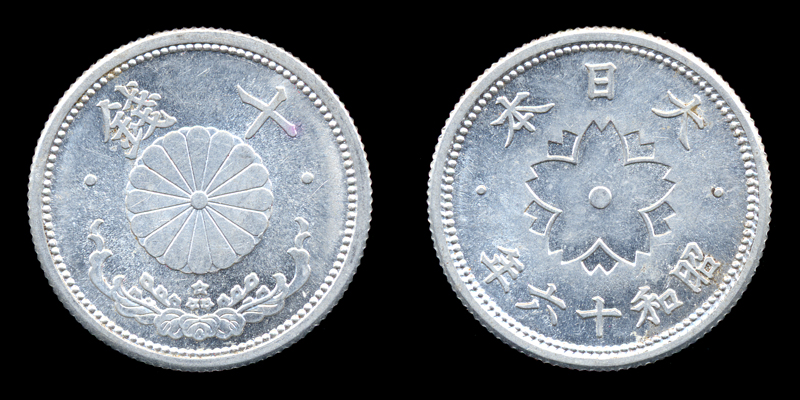 10sen-S16